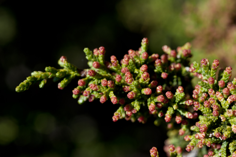 D. archeri image